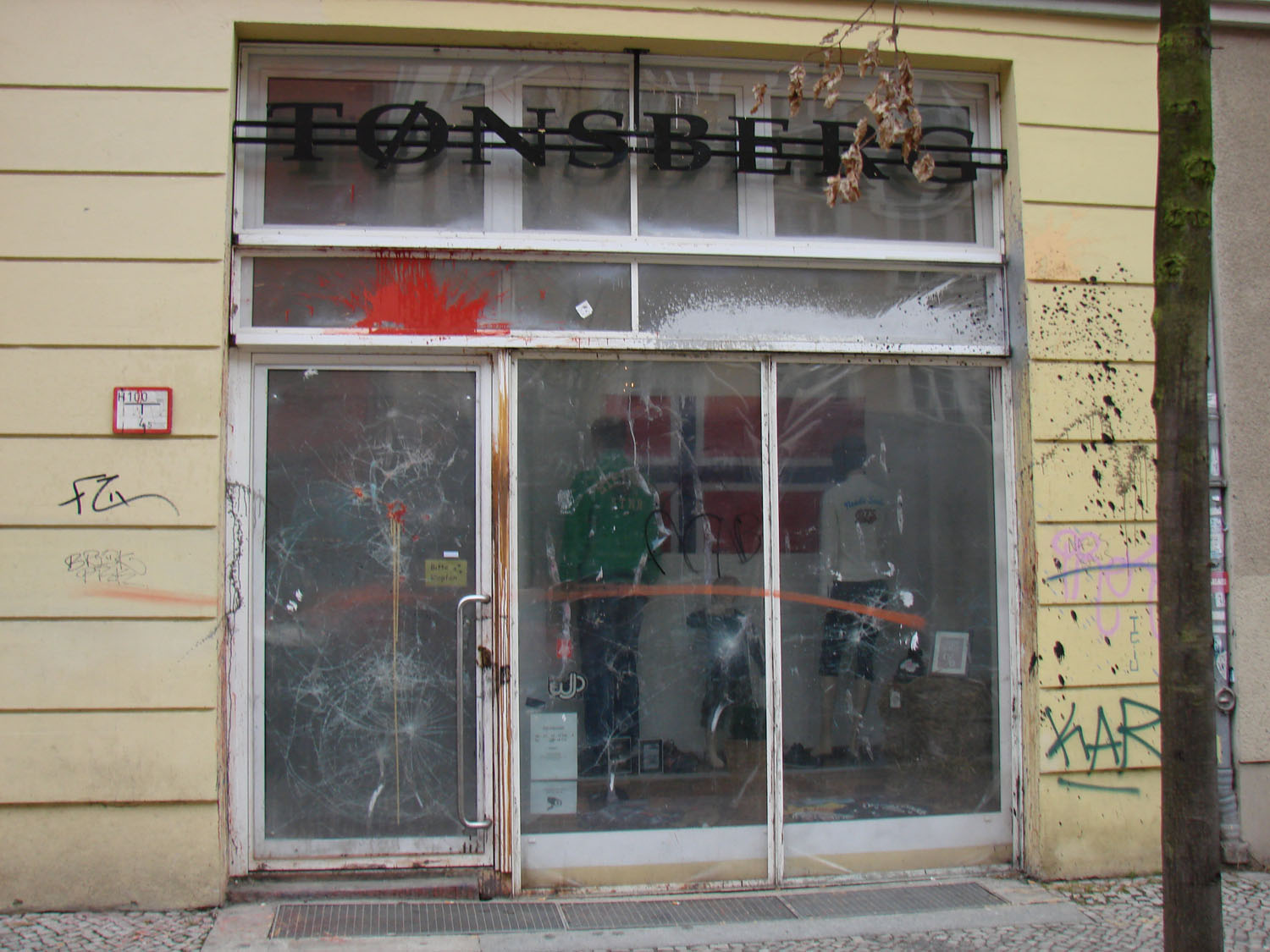 Tønsberg Store in Berlin. Sells clothing by Thor Steinar, which is popular with right-wing extremists